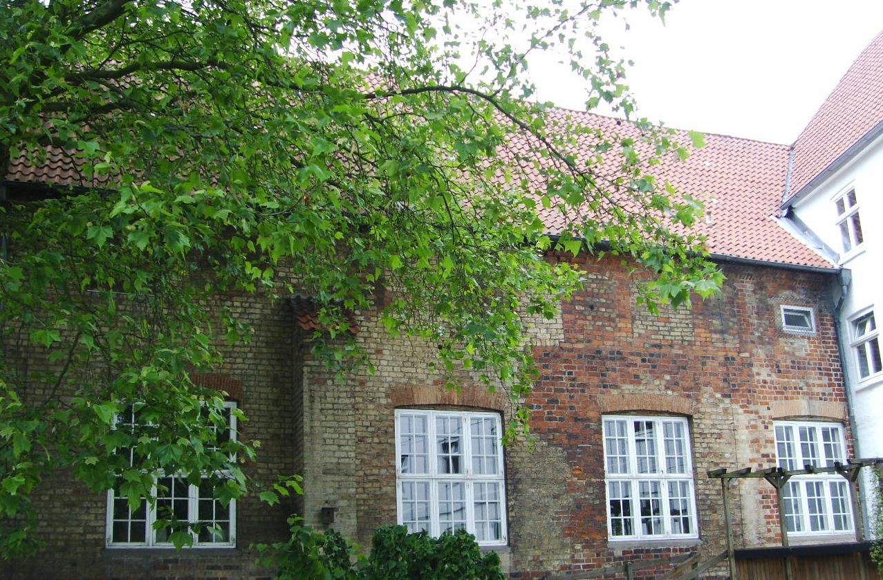 The Franciscan Monastery in Flensburg.